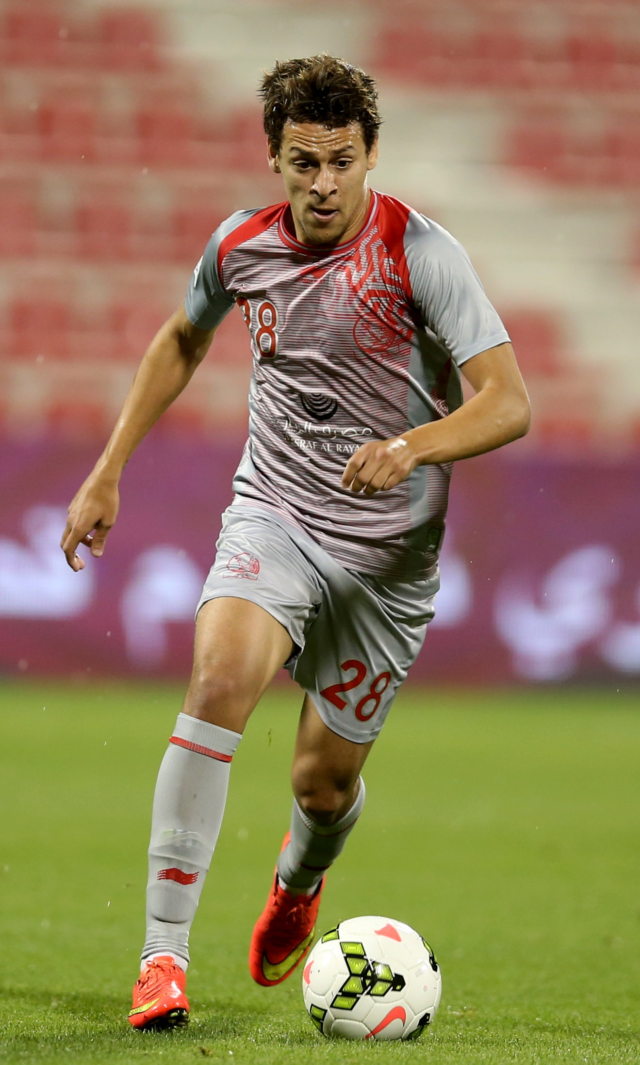 Qatar Stars League side Lekhwiya's Youssef Msakni kicks the ball during a game in Doha.